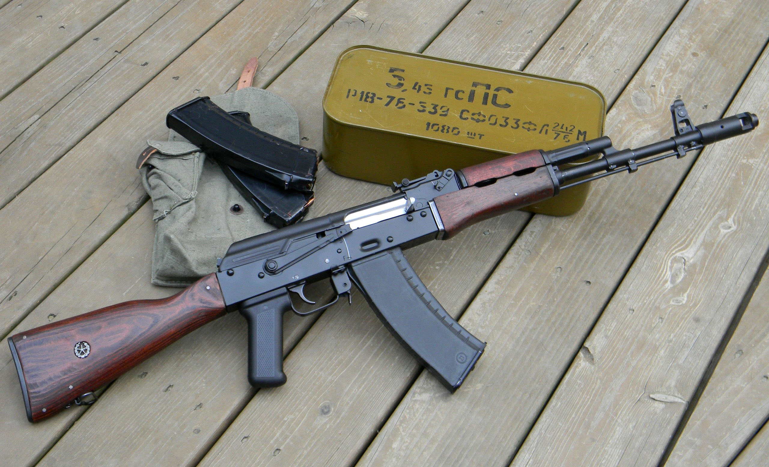 AK-74 assault rifle with soviet insignia, magazines and 5.45×39mm (7N6) ammunition can